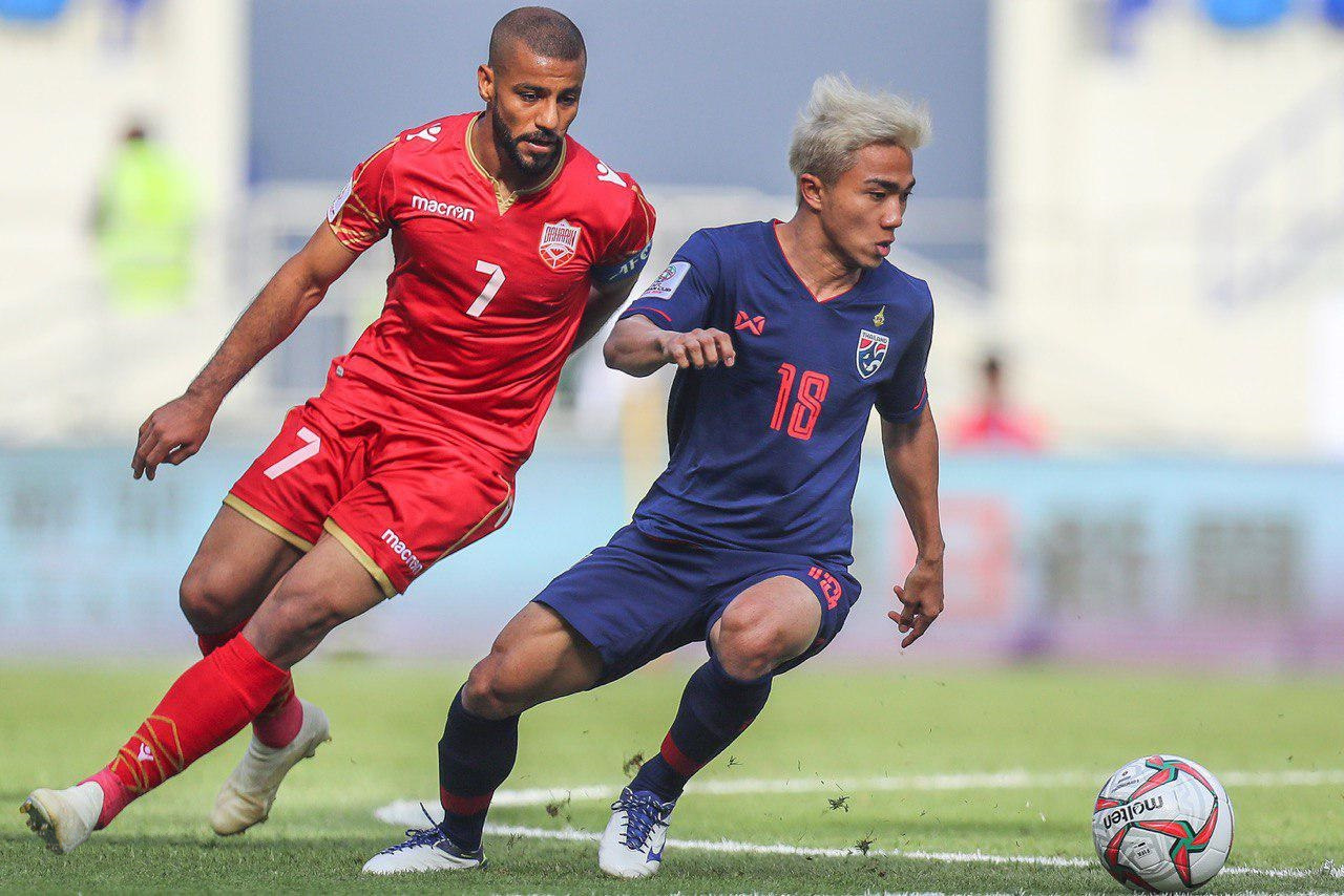 Thailand & Bahrain Group A match, 2019 AFC Asian Cup